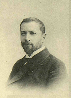 Naftaliy Markovich Fridman, lawyer, a member of the Third and Fourth Russian State Duma